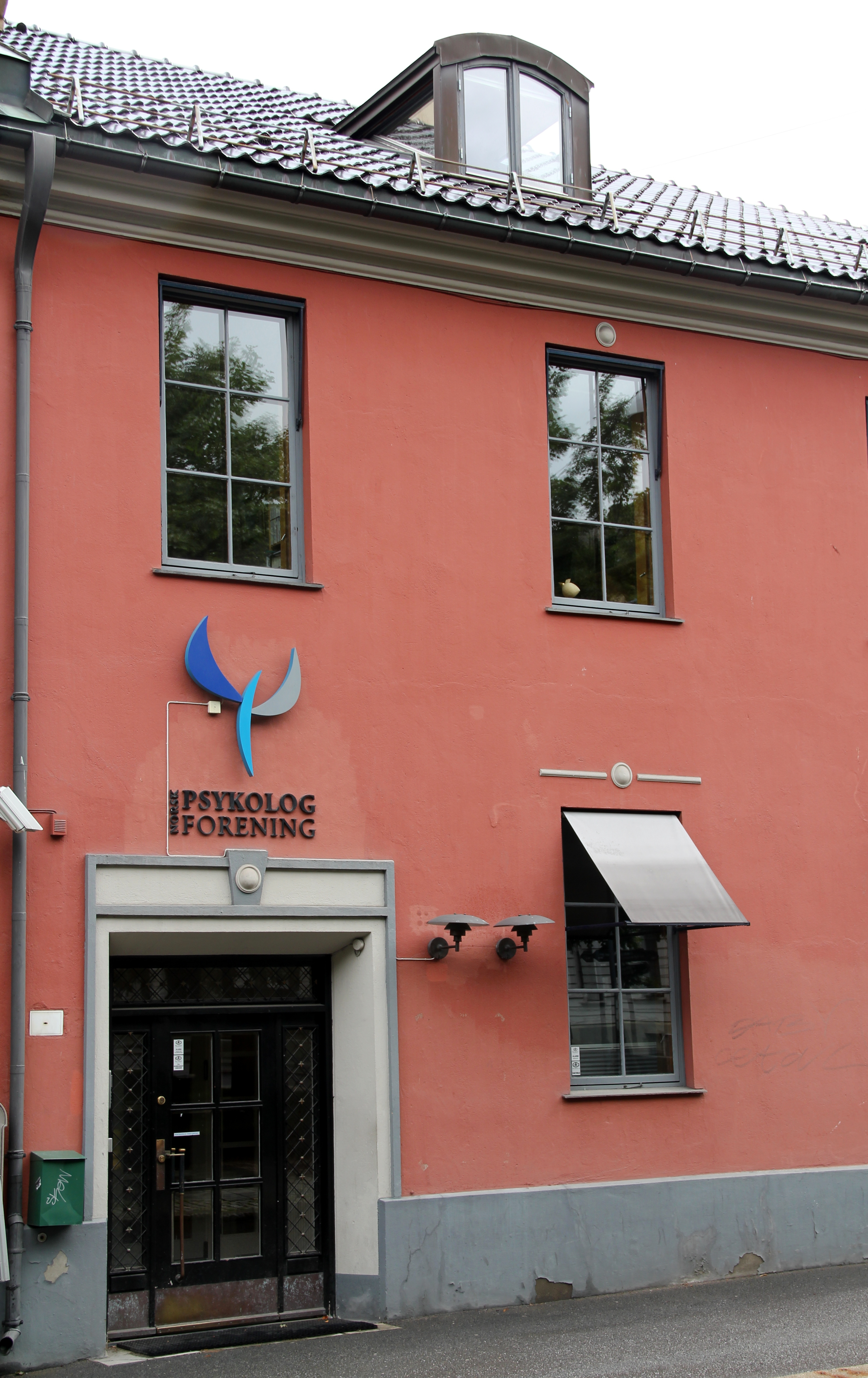 Norges Psykologforening in Oslo, Kirkegata 2.